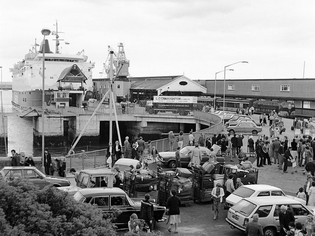 St Columba & train Carlisle Pier